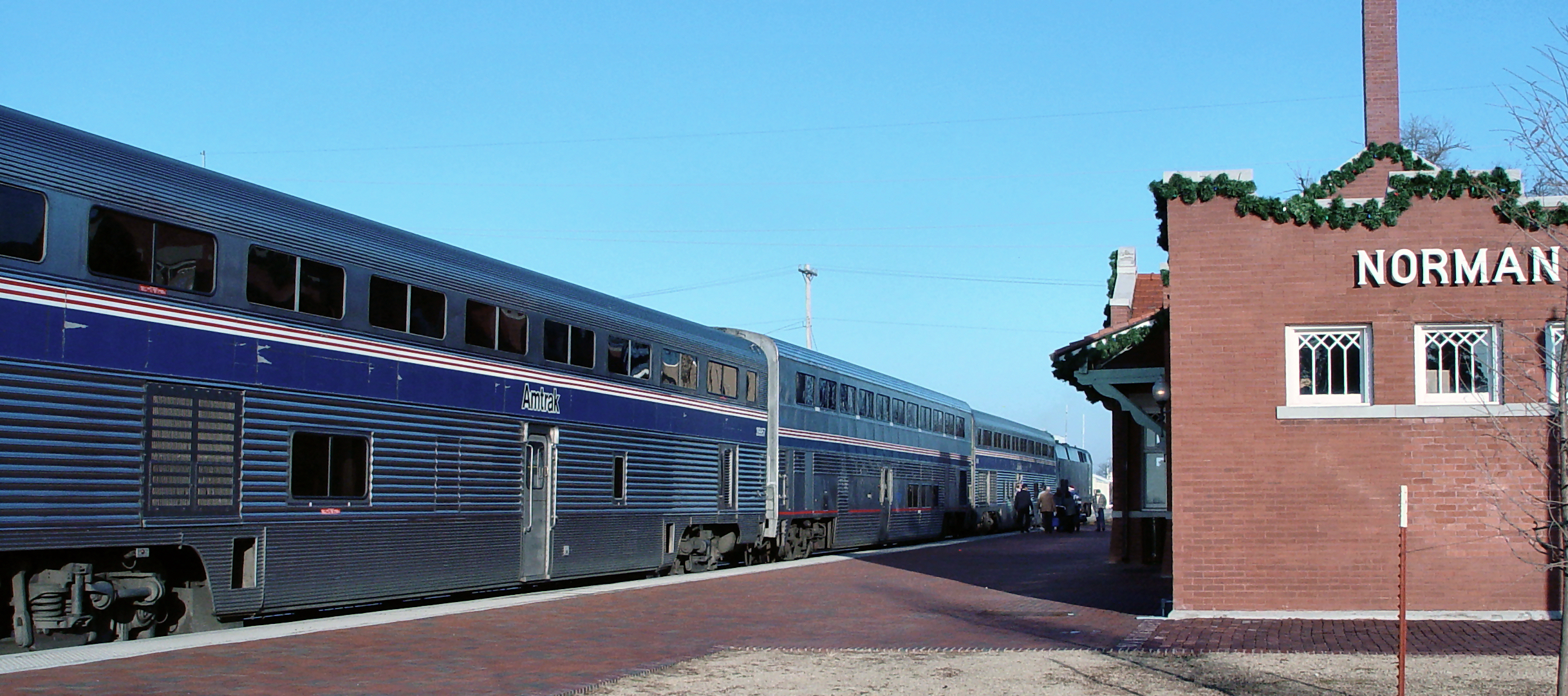 Amtrak's southbound Heartland Flyer boards at Norman, OK.